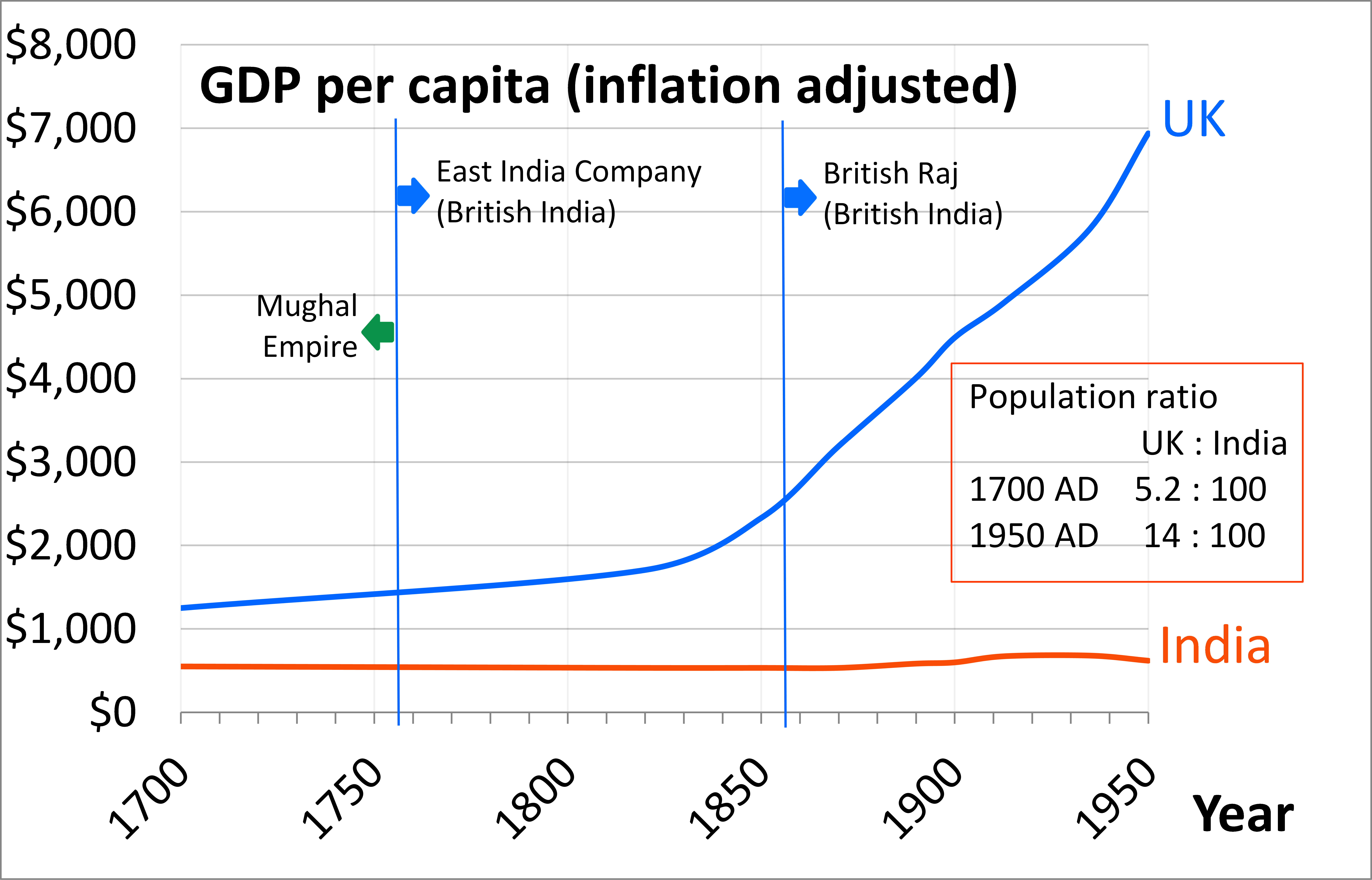 This map shows the change in per capita GDP of United Kingdom and India from 1700 AD to 1950 AD. This period includes the 1757 to 1950 period, considered to be the British colonial era in India. All GDP numbers are inflation adjusted to 1990 International Geary-Khamis dollars. Data Source: Tables of Prof. Angus Maddison (2010). The per capita GDP over various years and population data can be downloaded in a spreadsheet from here. The per capita and population ratio data in this chart is also available in hardcopy version here: Maddison A (2007), Contours of the World Economy I-2030AD, Oxford University Press, ISBN 978-0199227204